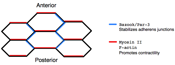 Planar Polarity Bazooka/Par-2 non-muscle Myosin II